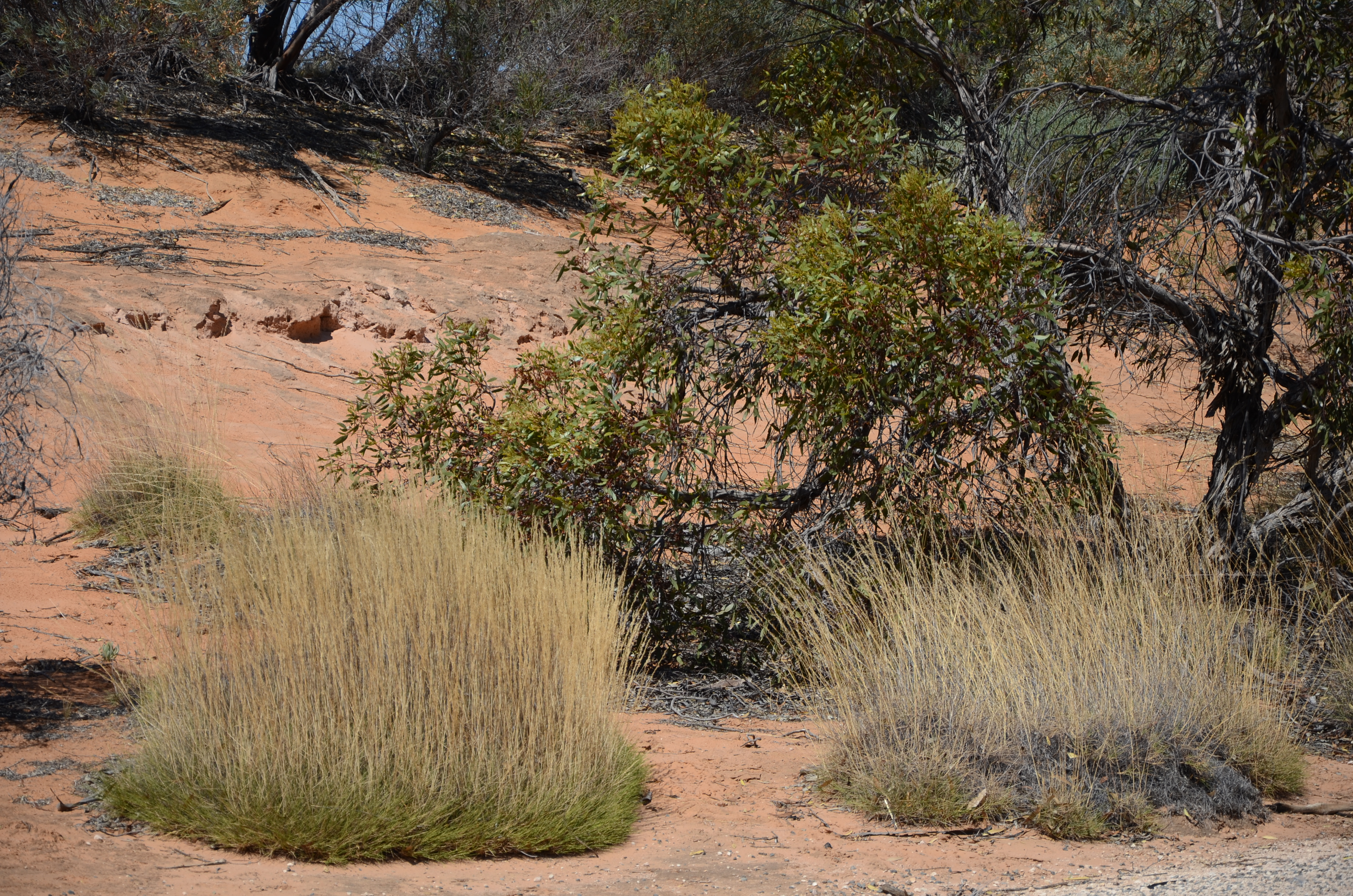 Commonly called spinifex